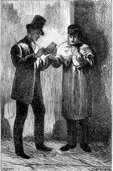 Pip is Warned by the Watchman not to Go Home, by Marcus Stone